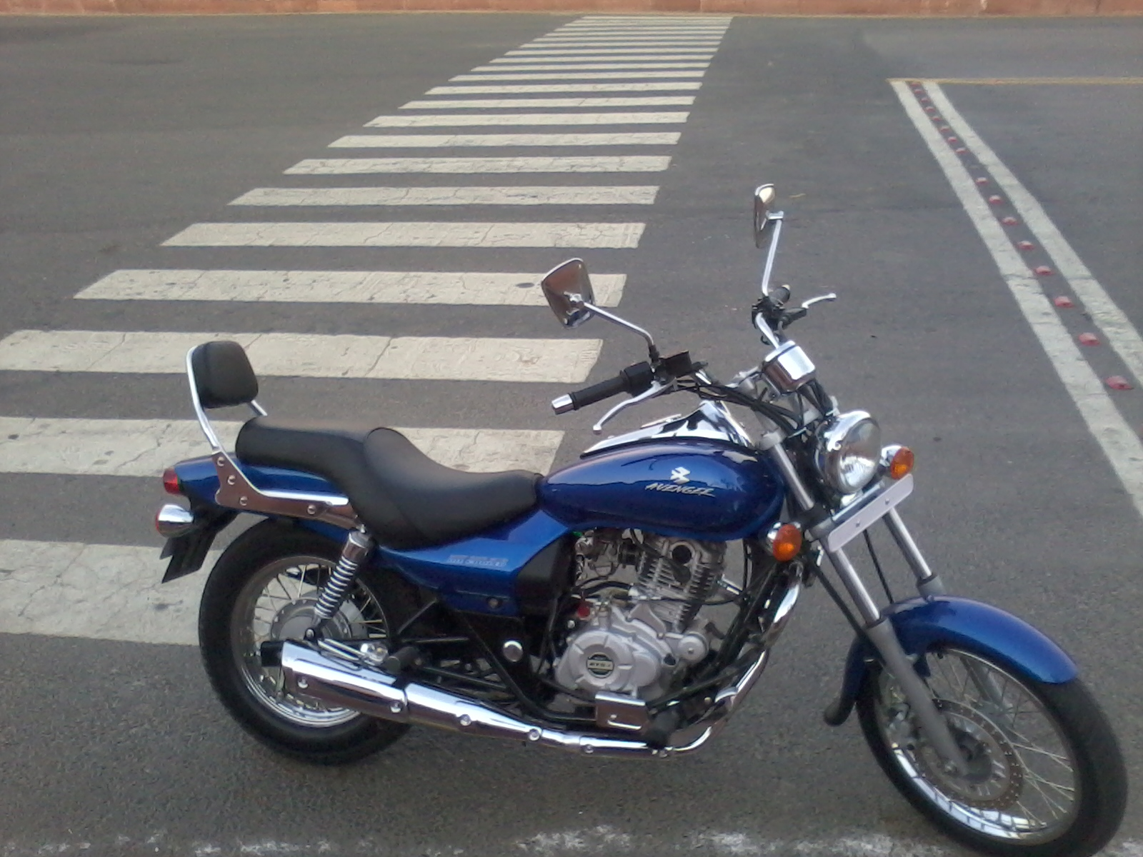 Bajaj Avenger 2012 model Indian edition with Bajaj 220cc oil cooled twin spark petrol dtsi engine.